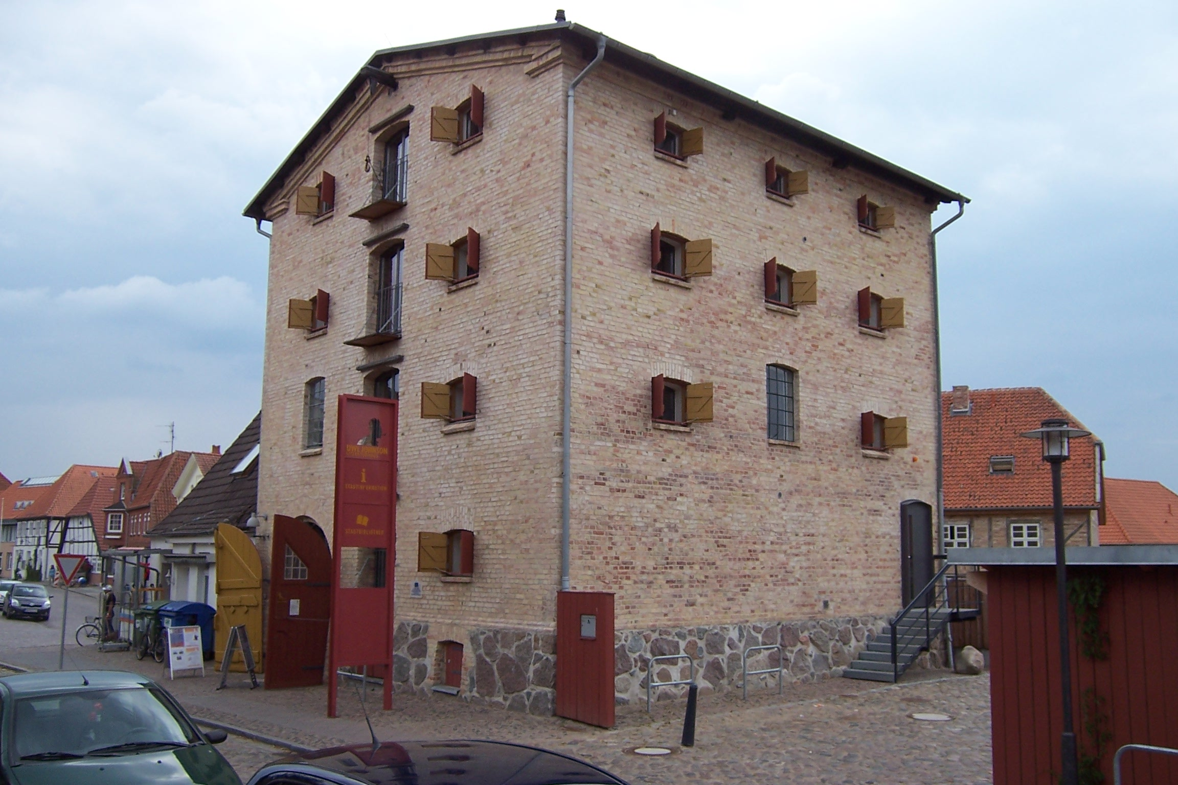 Literaturhaus Uwe Johnson in Klütz